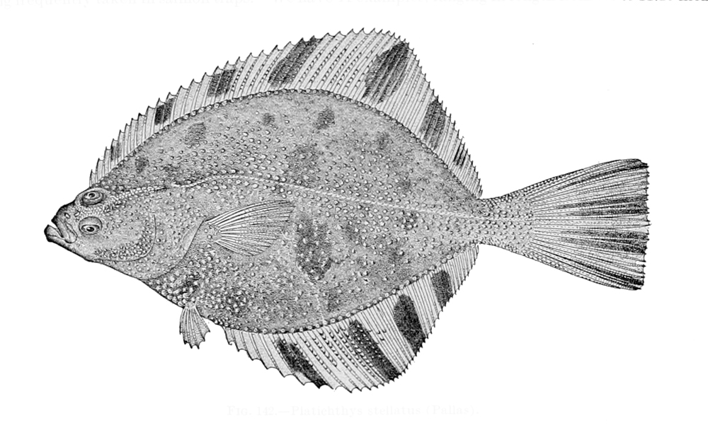 Platichthys stellatus